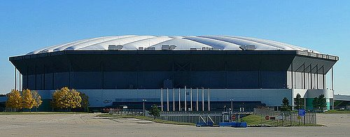 While I was in Pontiac, Michigan to see the newly opened Silverdome